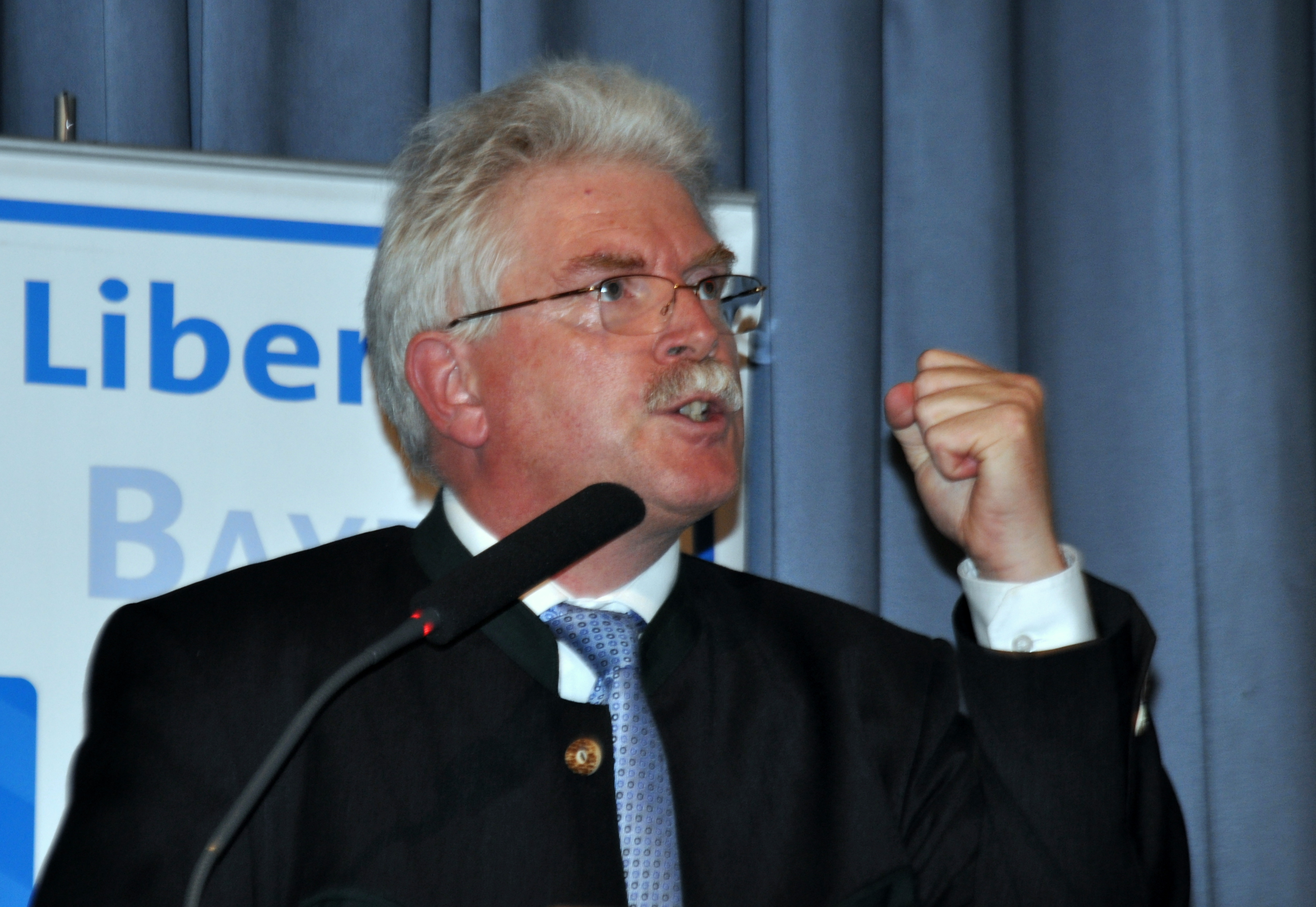 Martin Zeil, Bavarian minister of state for Economic Affairs, Infrastructure, Transport and Technology, vice prime minister of Bavaria in the cabinet of Seehofer, 2008-2013, member of the Bavarian state parliament (FDP) since 2008 and member of the federal parliament of Germany 2005-2008. Member of the Free Democratic Party (FDP).